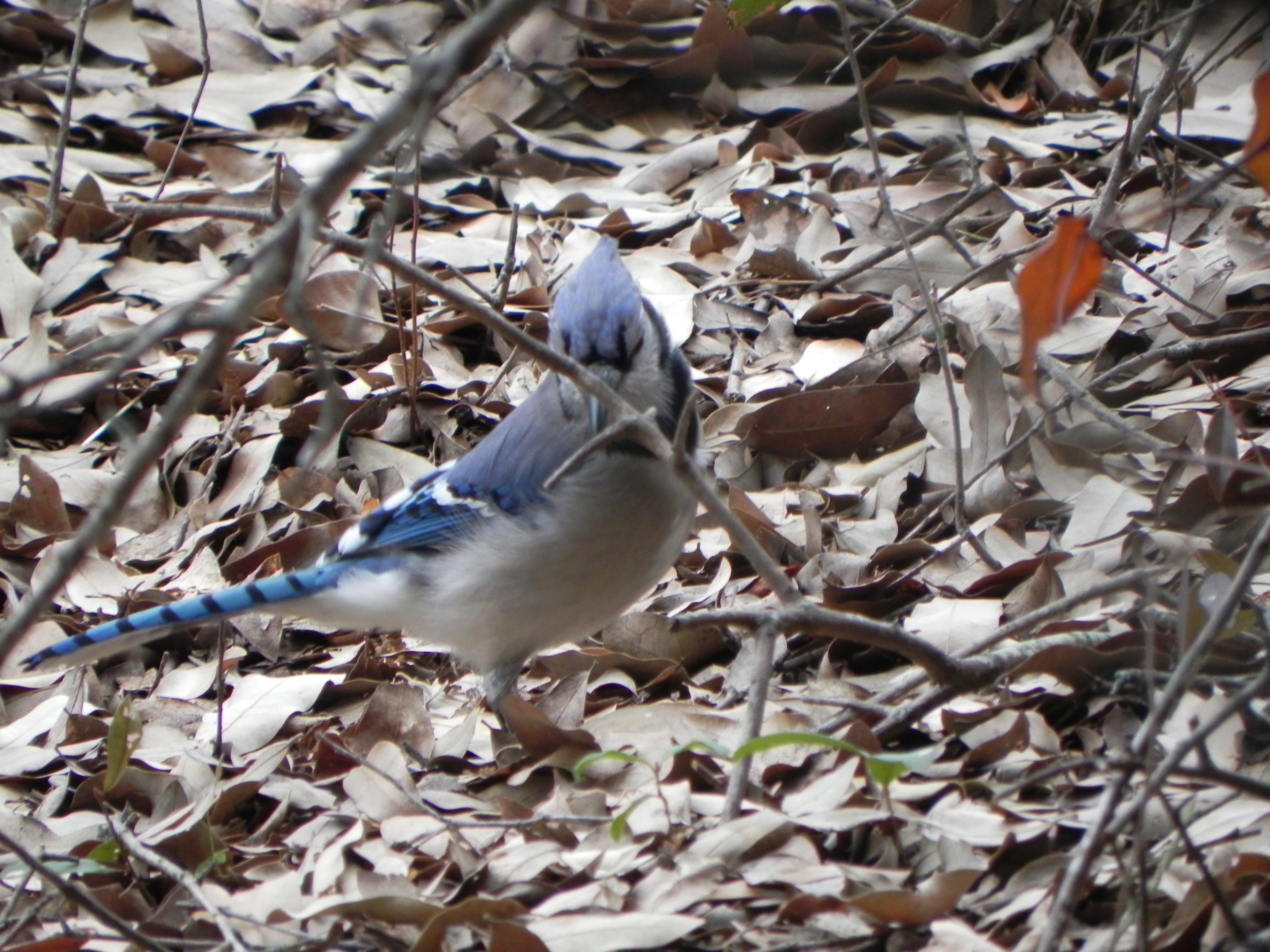 Photo taken at First Landing State Park, by Park Interpreter